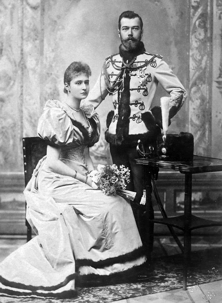 Engagement official picture of Tsar Nicholas II and Alexandra Feodorovna